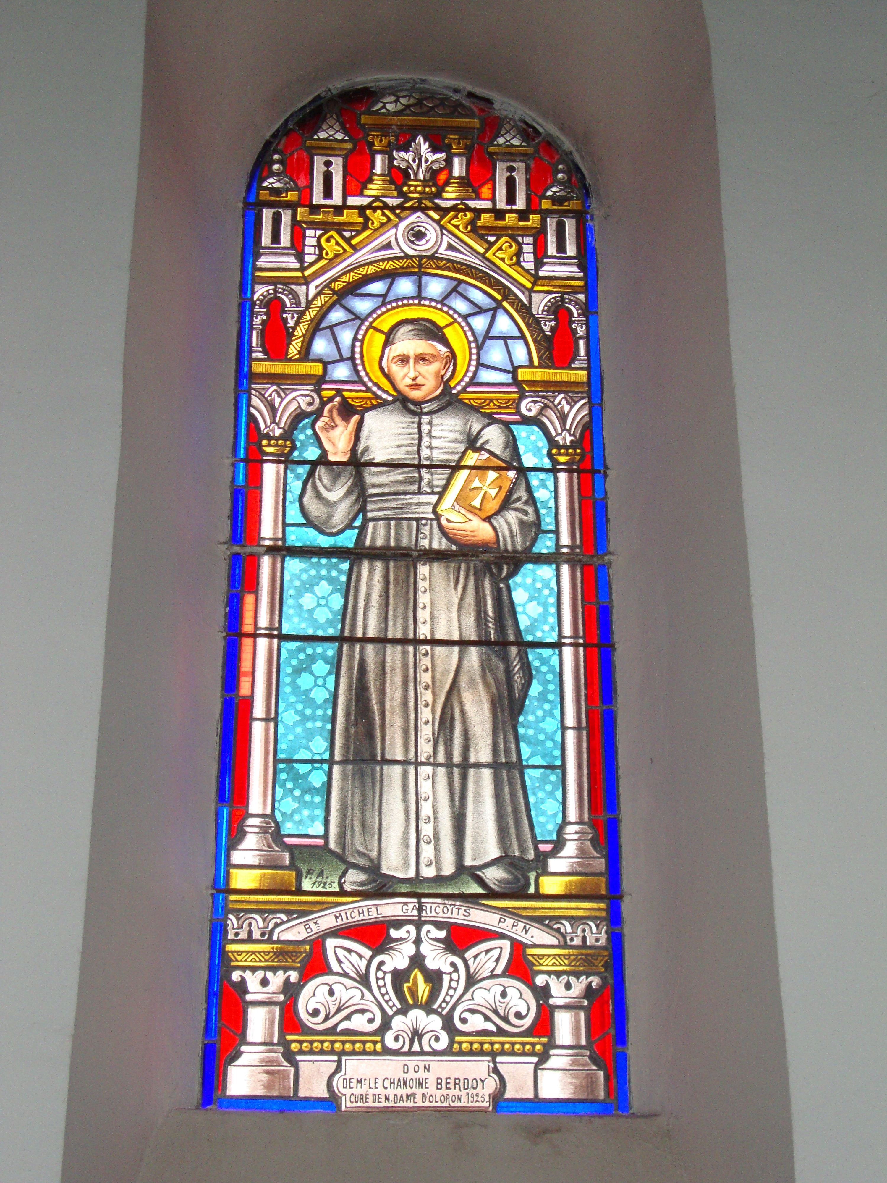 Aramits (Pyr-Atl, Fr) Stained glass window 08 - Saint Michael Garicoits